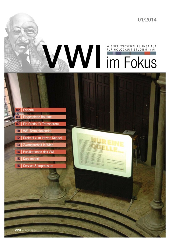 VWI Newsletter Cover 2014/01